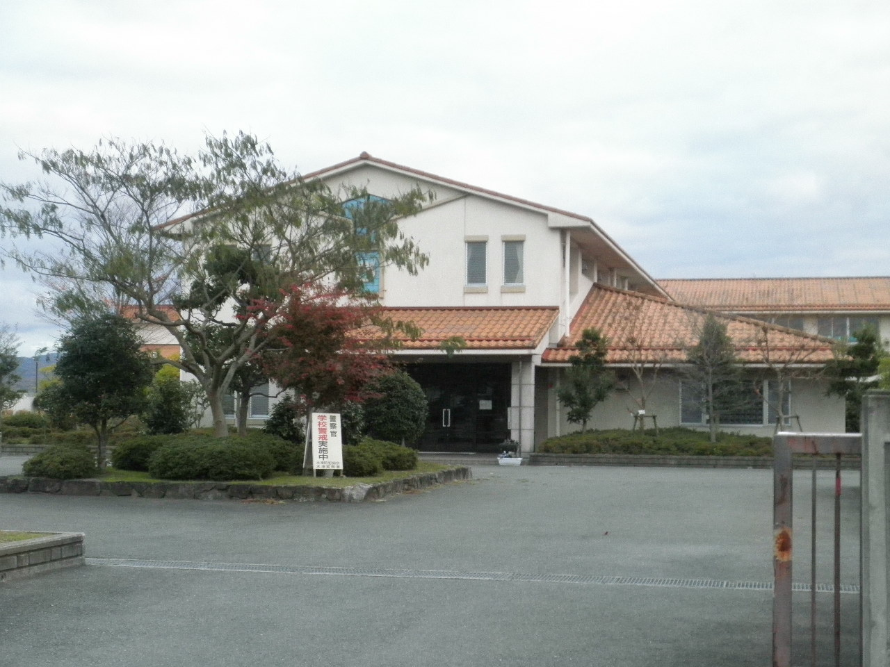 Saganakadai Elementary School